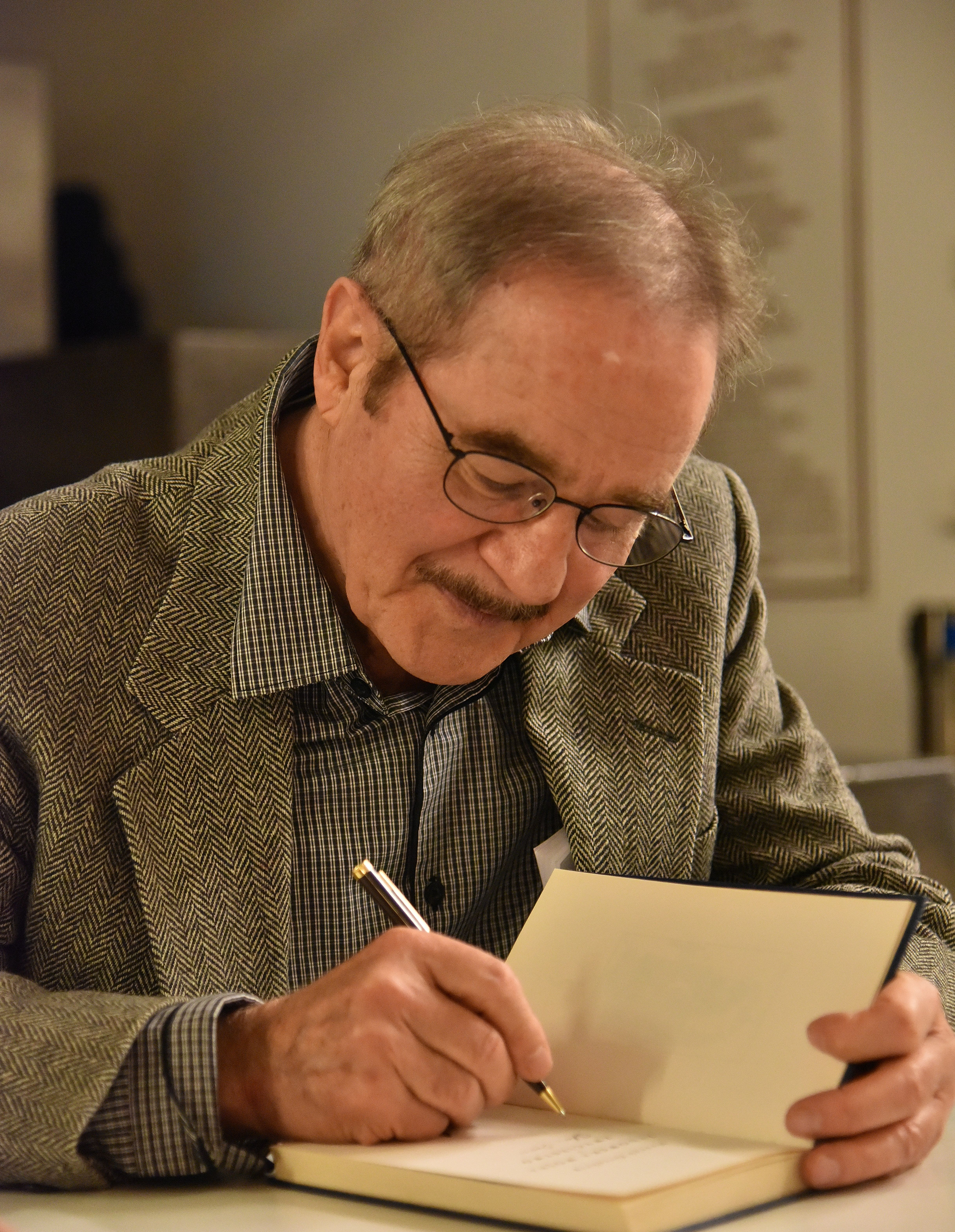 Henryk Grynberg during a meeting in "Thursdays at Tłomackie Street" series at the Jewish Historical Institute in Warsaw